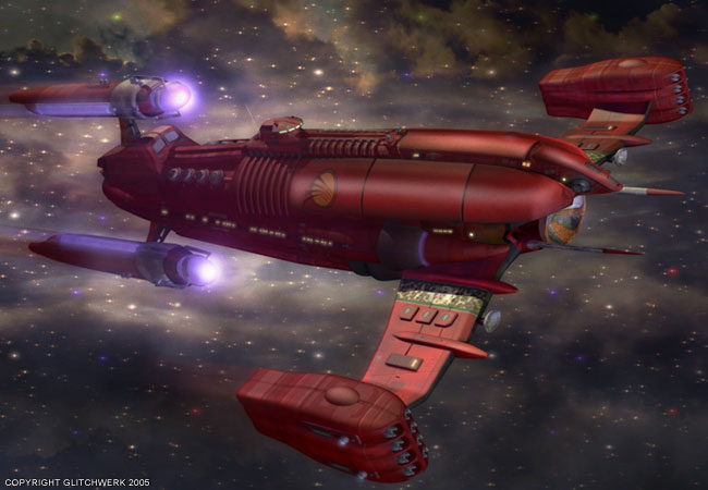 A CGI image of a Kzinti Dark Stalker vessel, created for possible inclusion in a fifth season episode of Star Trek: Enterprise.